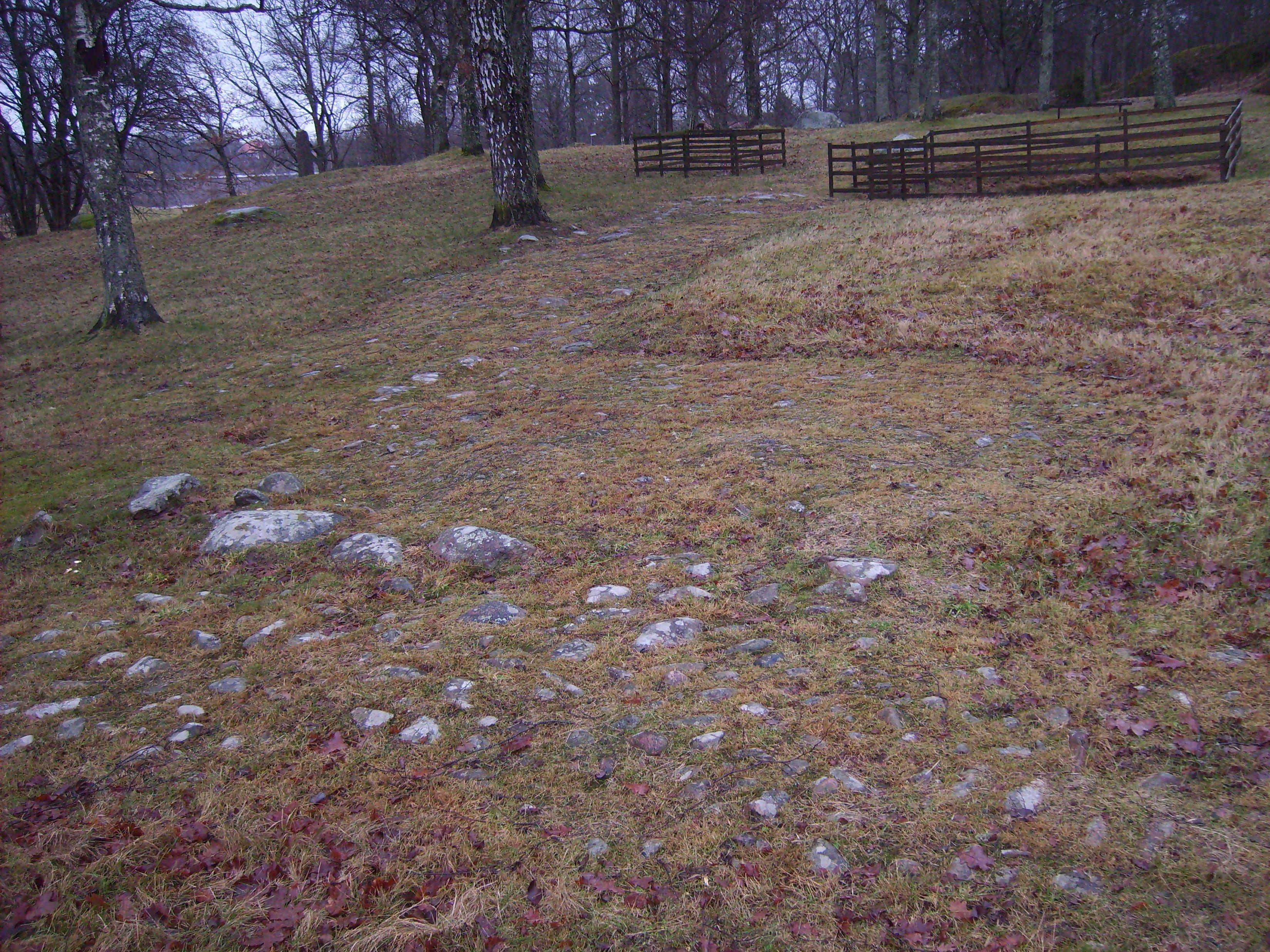 The ruins of Brätte, parent town of Vänersborg. It was some time in the 1580s that Brätte market place was obtained its first charter. Trade here “took off” with the growth of the iron trade southwards from the landscape Värmland. Brätte had a brief period of greatness in the 1610s, when its population was doubled by fugitives from the town Nya Lödöse, after that settlement had fallen to the Danes. The boom ended in 1619, when Sweden recovered the occupied territories. The Brätte settlement was transferred in 1641 to Huvudnäs, and the new Brätte, re-named Vänersborg, received its first charter in 1644. Some of the finds from excavions at Brätte are on display in Vänersborgs museum. The last excavation was made 1944.